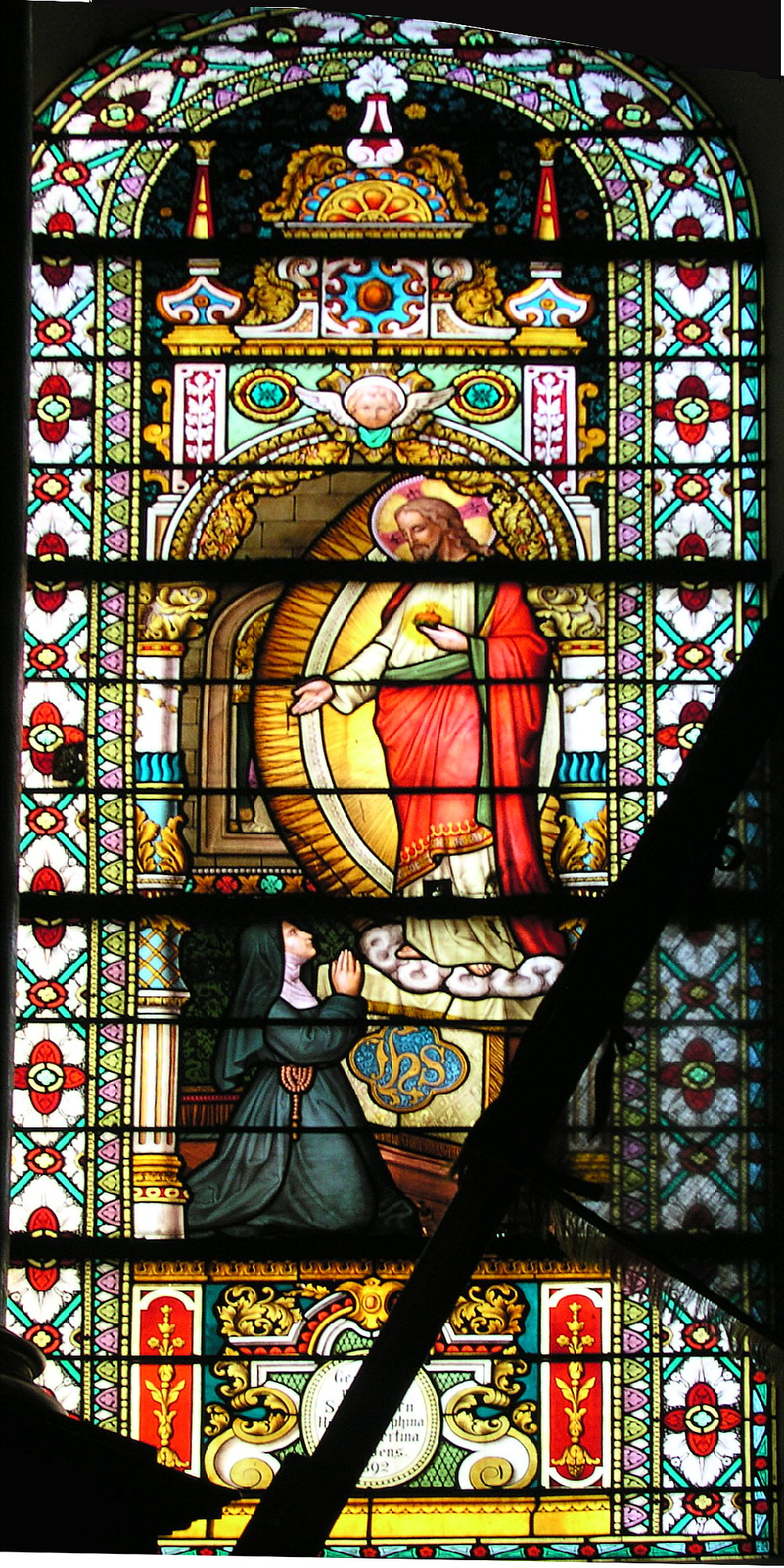 Hombourg church window from 1892 showing Holy Marguerite-Marie Alacoque